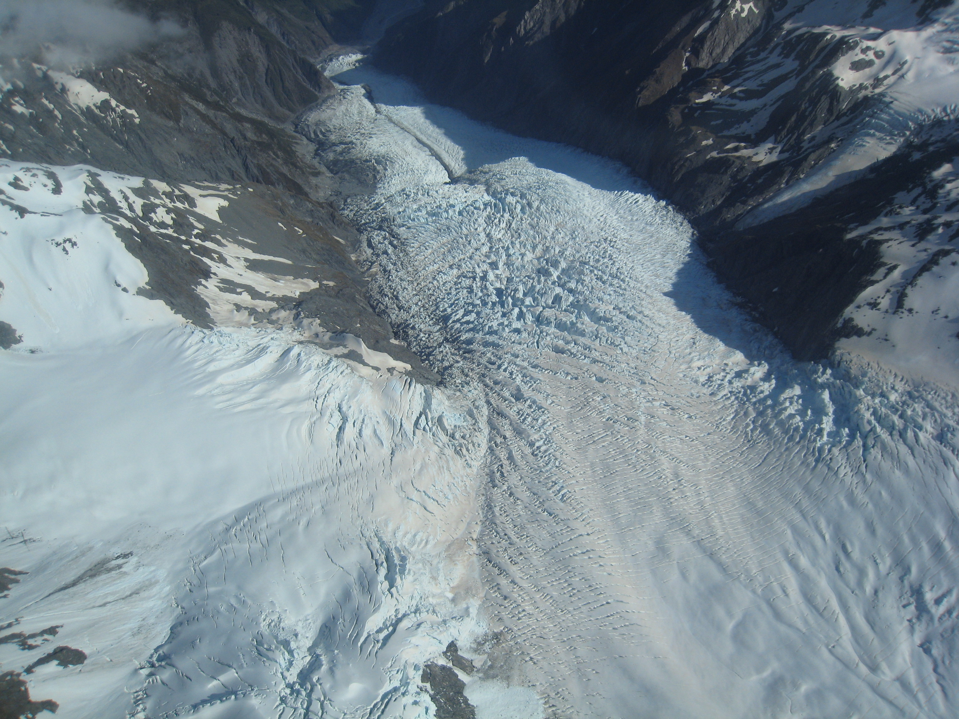 Aerial view of the Franz Josef Glacier, looking down its length from above the tributary Melchior Glacier. On the far side of the valley, the small glacier that does not quite meet the Franz Josef is the Almer Glacier.